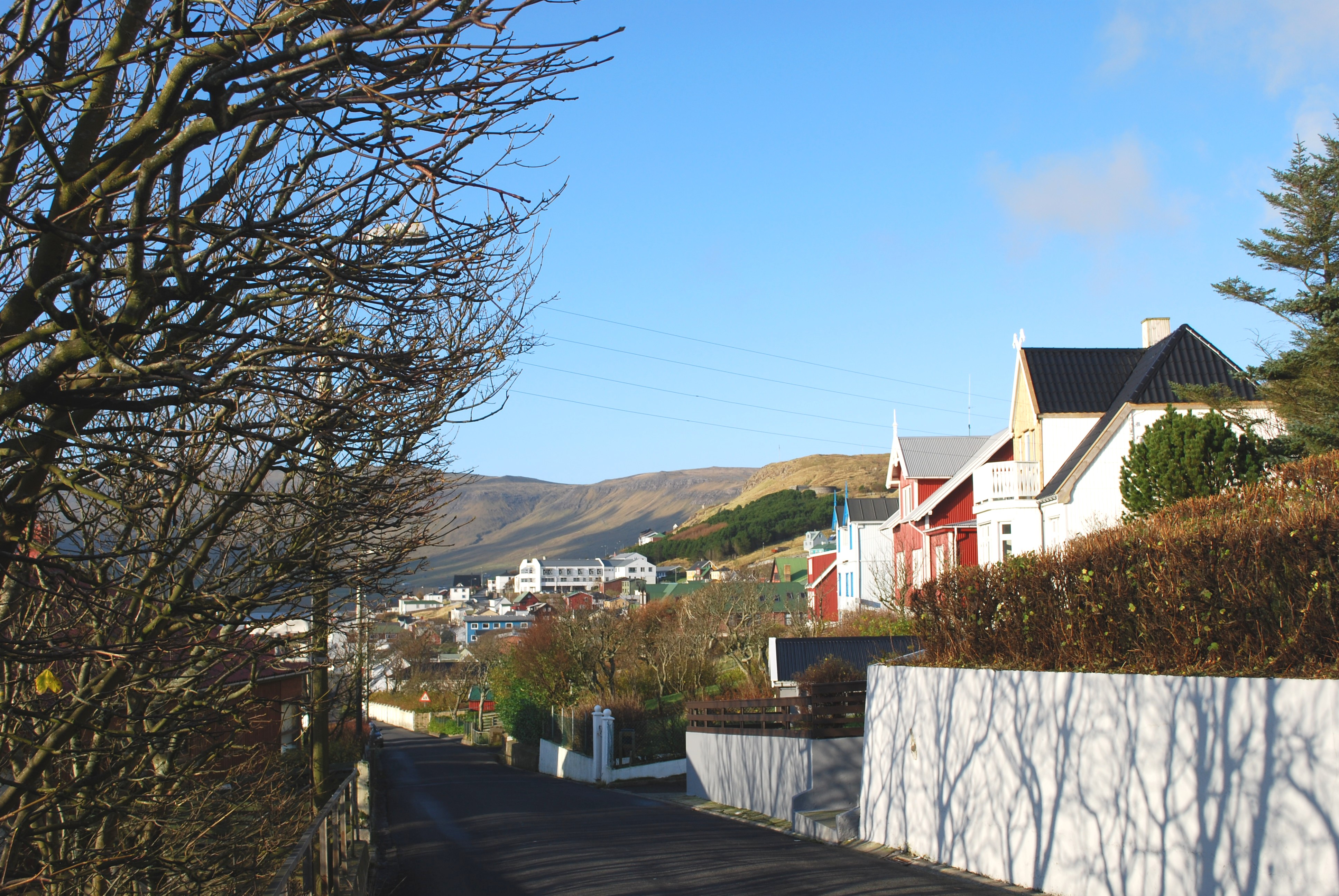 Tvøroyri with old houses from 1900